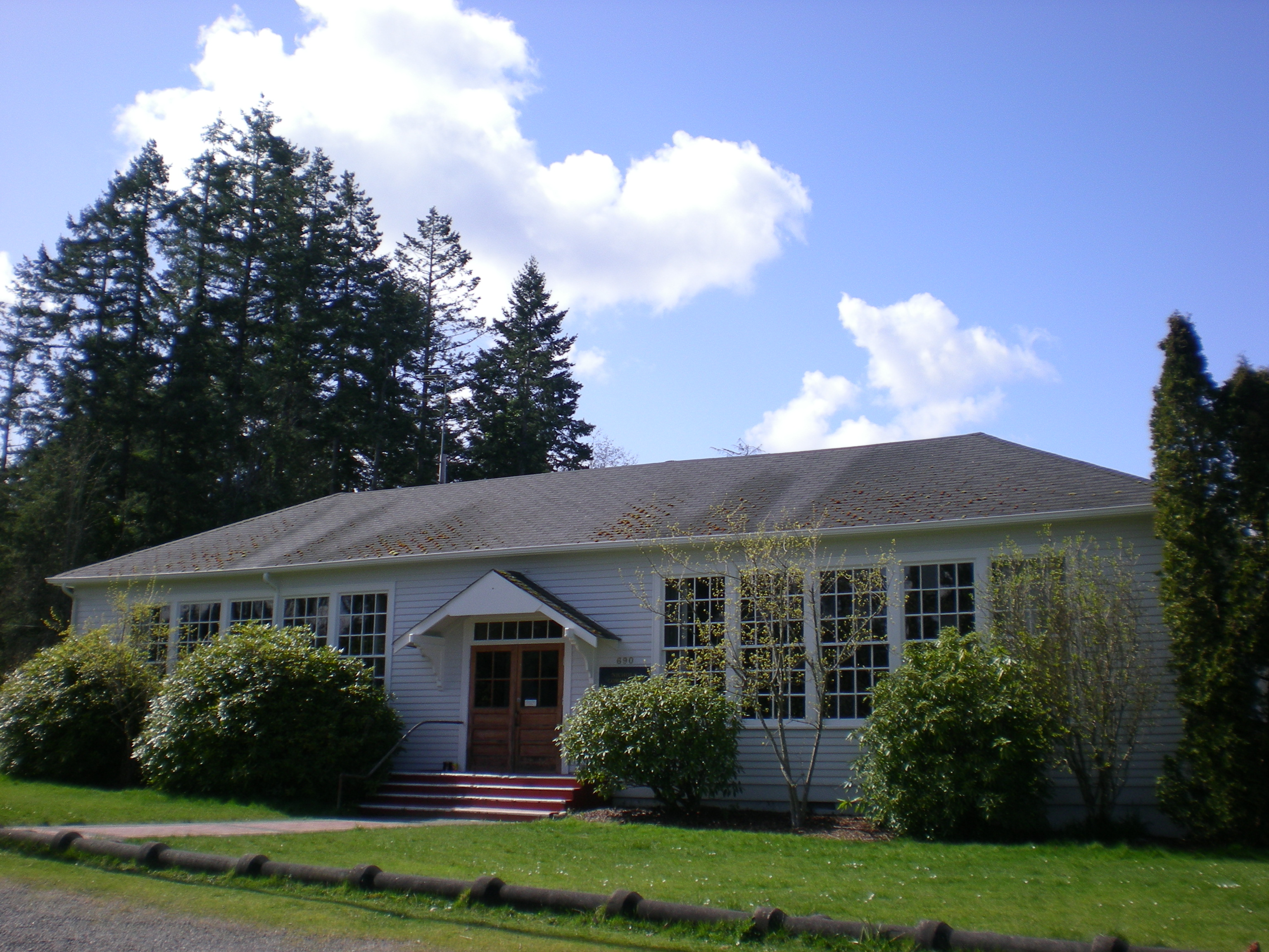 The former Fox Island School / Nichols Community Center, Fox Island, Washington